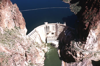 Aerial image of Horse Mesa Dam — on the Salt River in Maricopa County, Arizona.